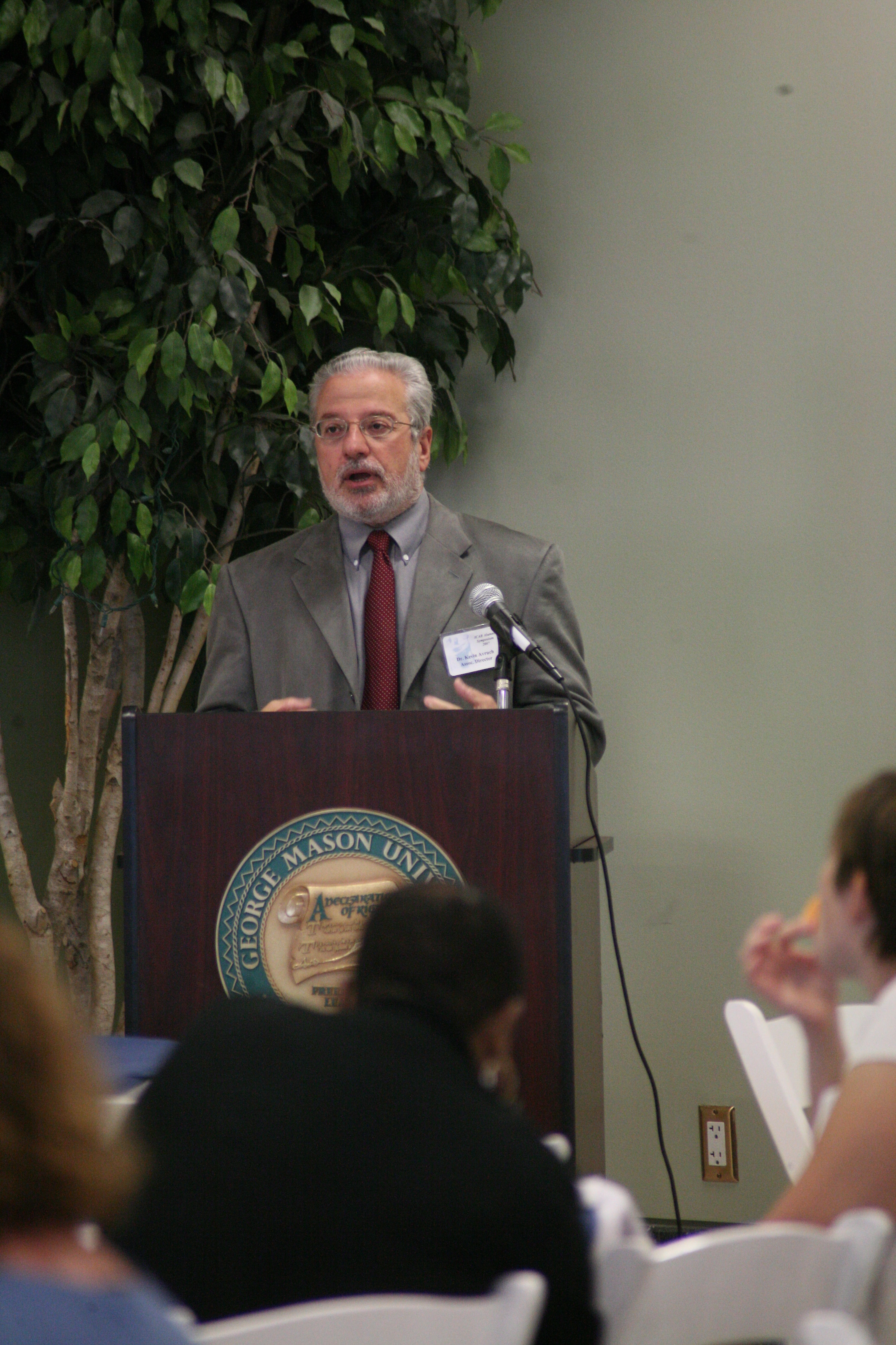 Photo of Kevin Avruch speaking at a Welcome Dinner for the Institute for Conflict Analysis and Resolution (later the School for Conflict Analysis and Resolution) at George Mason University in 2007. For use in this article